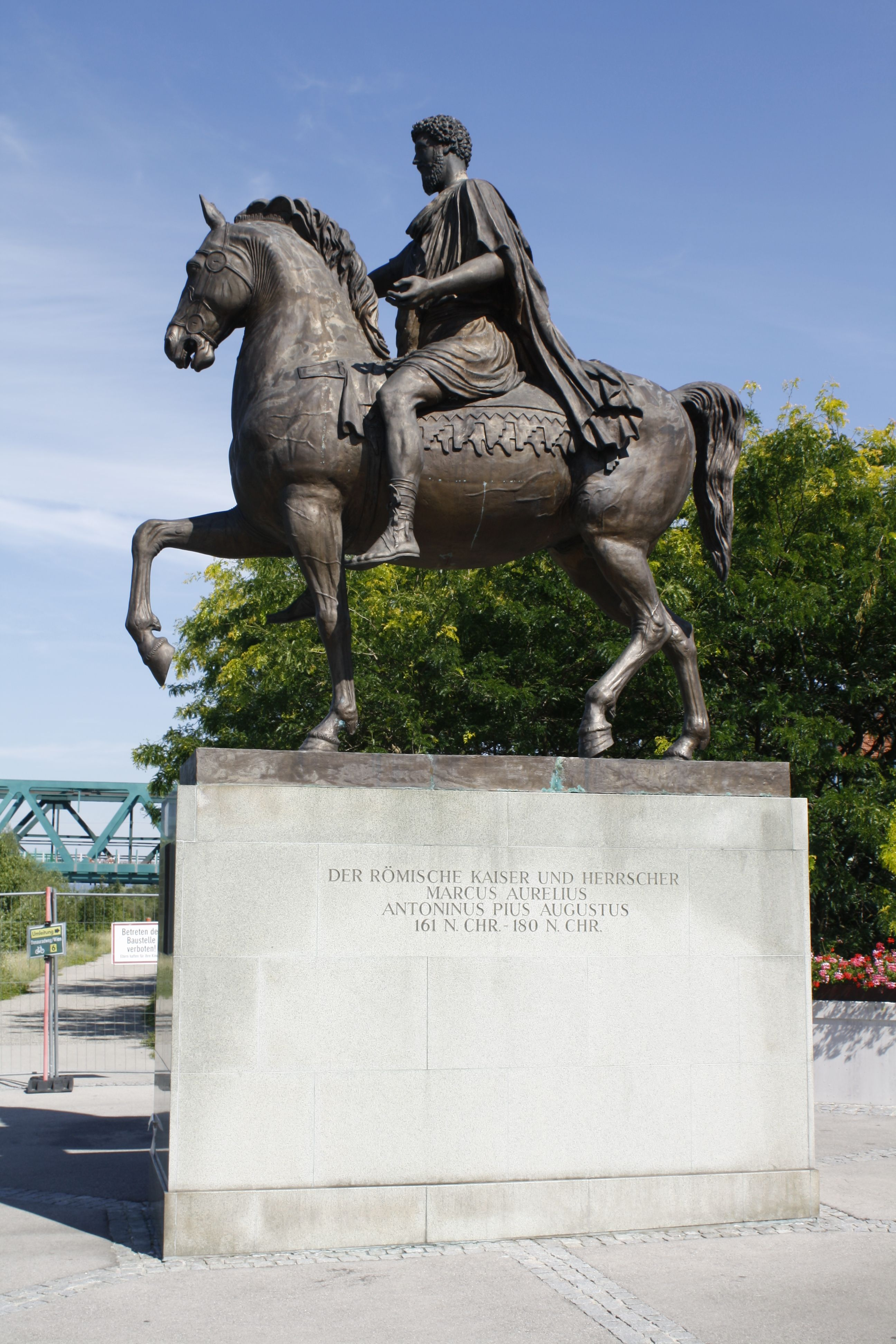 Monument of Marc Aurel in Tulln an der Donau